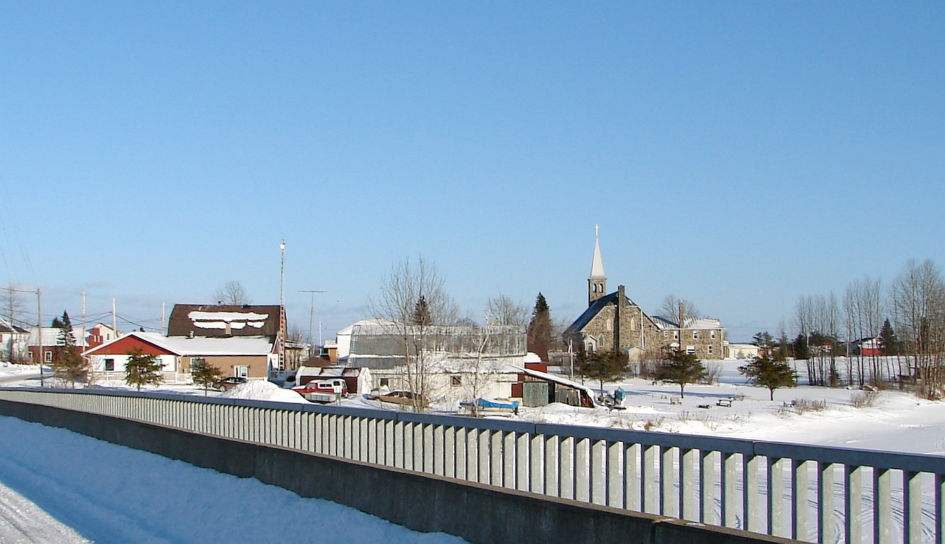 Community of Belle-Vallée (Casey Township), Ontario, Canada